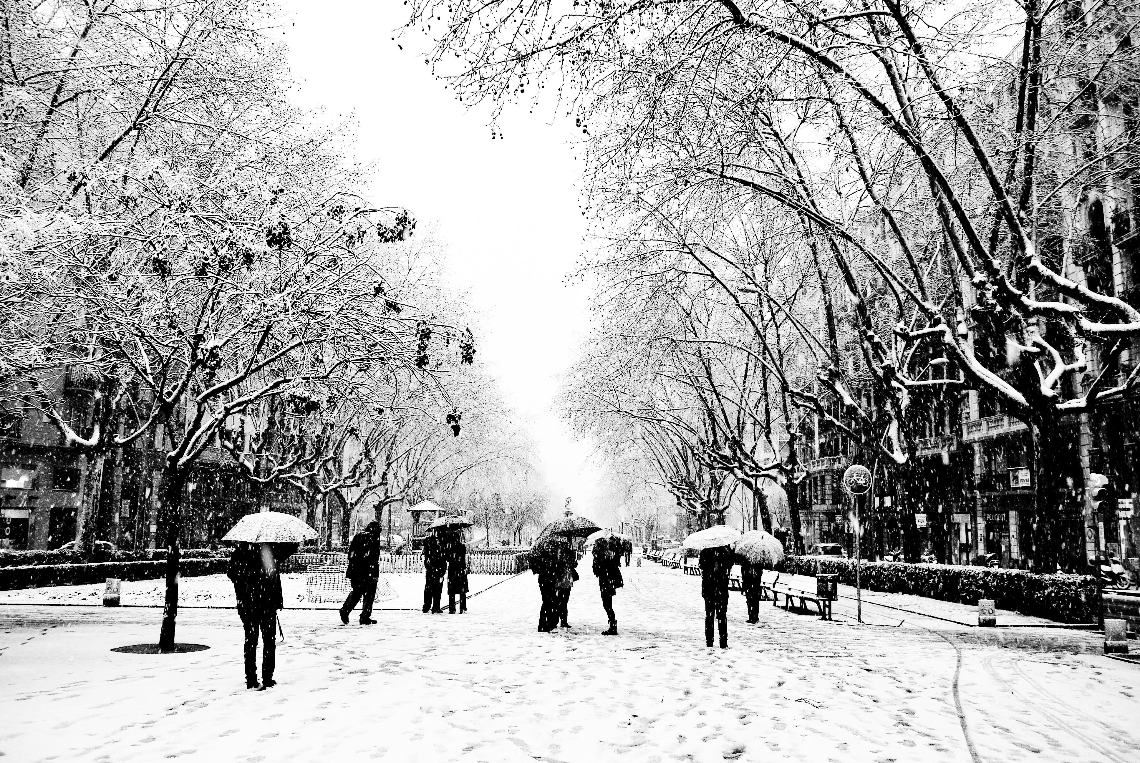 Black and white picture of snowfall in Barcelona on March 8, 2010. (streets Passeig de Sant Joan - Indústria)